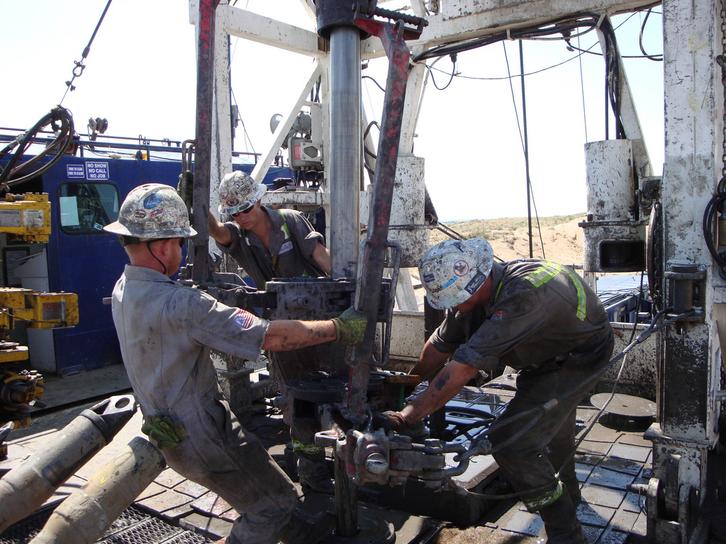 Roughnecks working on a drilling rig in Greeley, Colorado in 2008.